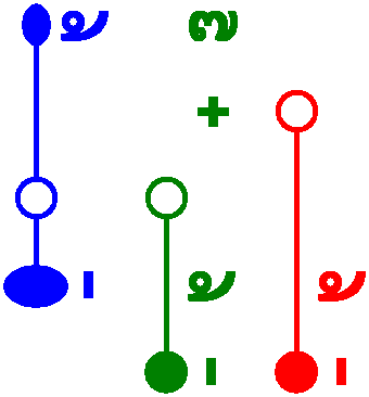 A chart for tone rules in the Thai language. The five levels (from above): high tone, rising tone, normal tone, falling tone, low tone. Empty circle: live syllable, full circle: dead syllable. Narrow ellipsis: short vowel, wide ellipsis: long vowel. Blue: low, green: middle, red: high initial consonant and the possible syllable structures and tone marks with them.